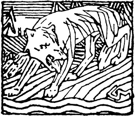 Gerhard Munthe: Illustration for Harald Hårfagres saga. Snorre 1899-edition. vignett 9